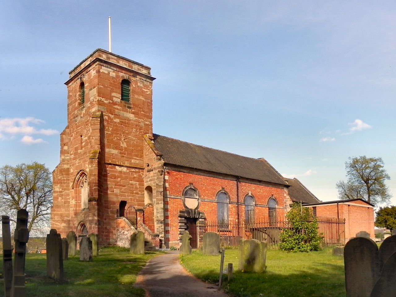 View of Holy Trinity Church, Baswich, Staffordshire.[1] Courtesy of .